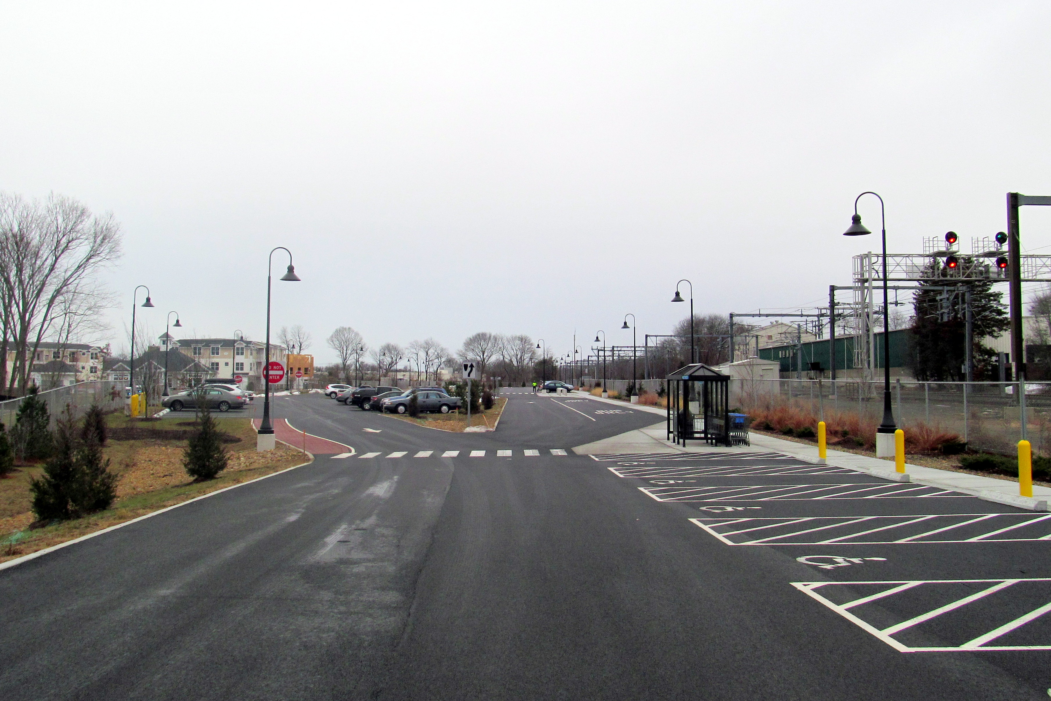 Newly constructed additional parking lot at Old Saybrook station, photographed in December 2016